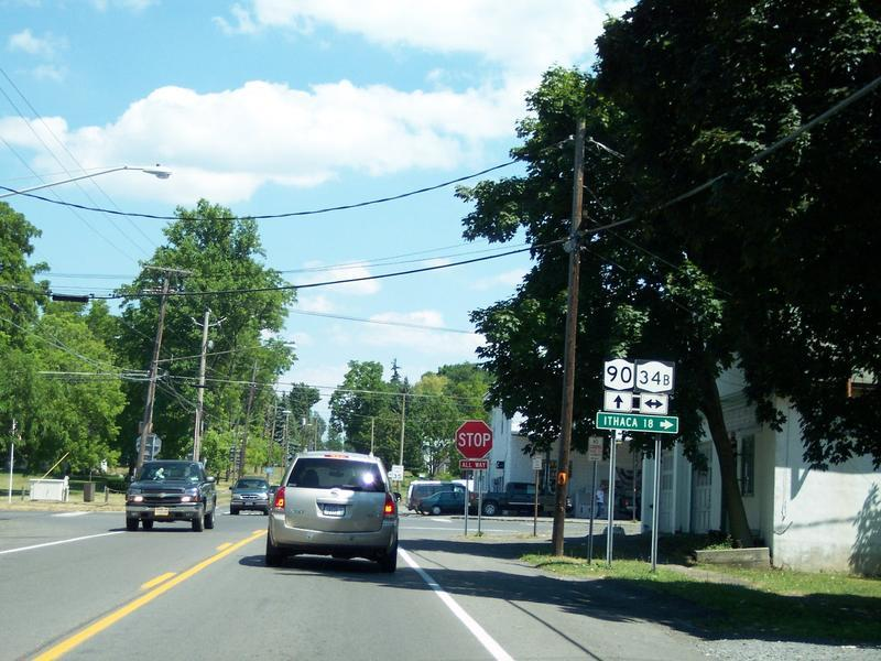 NY 90 takes an easterly turn, and meets NY 34B in the hamlet of King Ferry